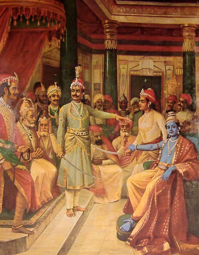 Sri Krishna, in his role as an Envoy of Pandavas to the Kaurava Court.